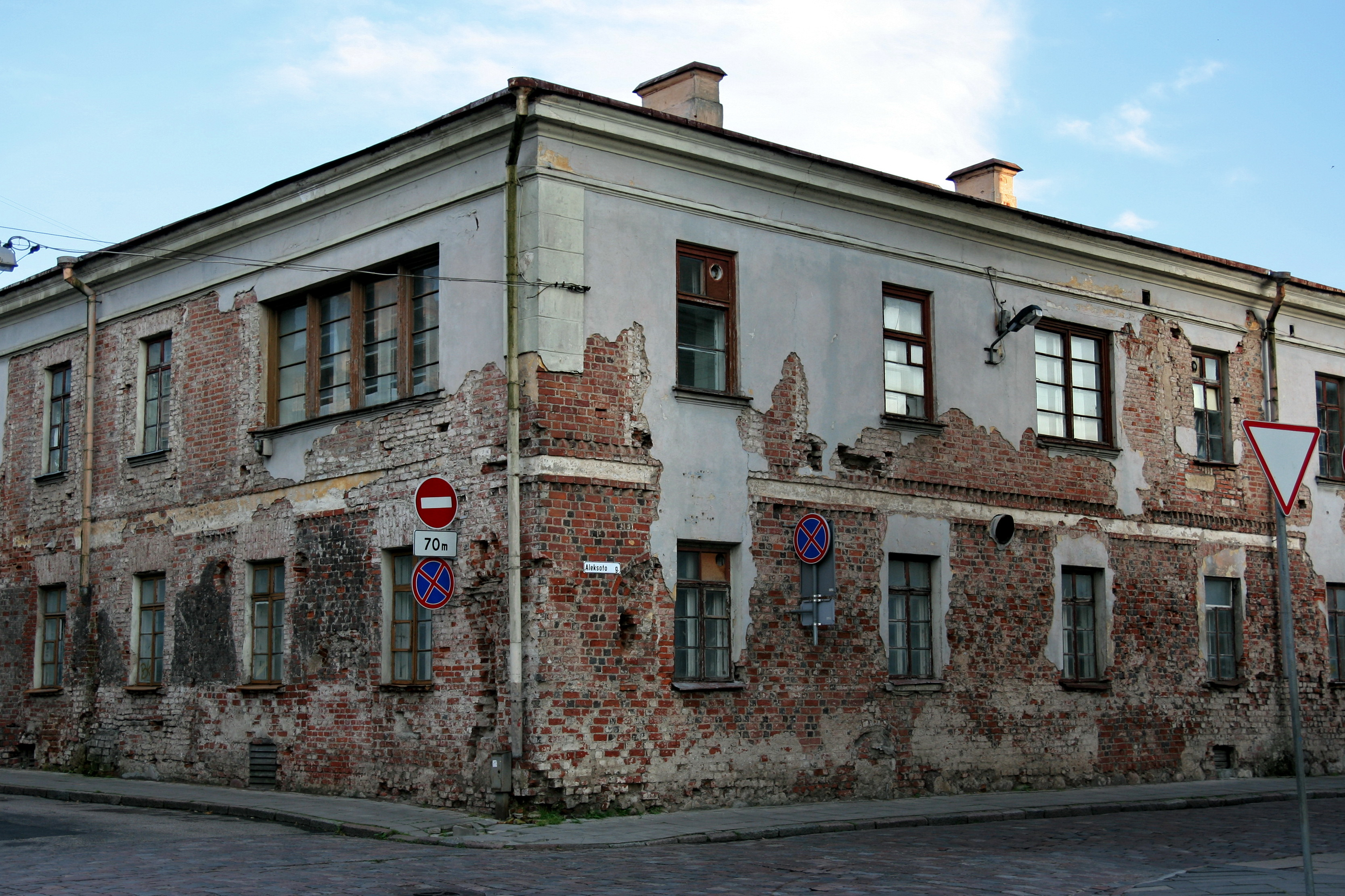 Former Ducal Palace in Kaunas, Lithuania.